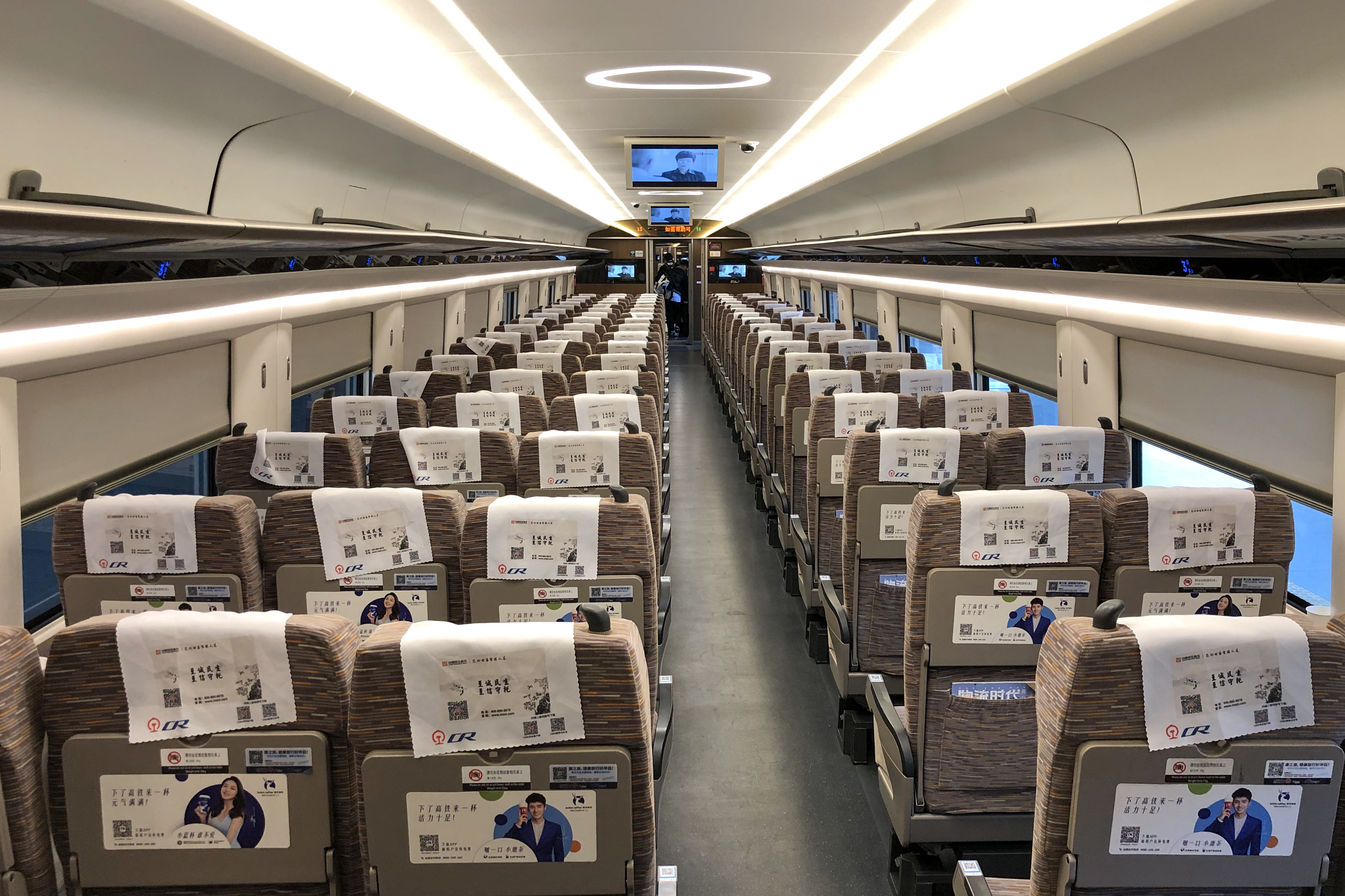 G14 to Beijing South. All the tray tables are tagged with Luckin Coffee advertisements.